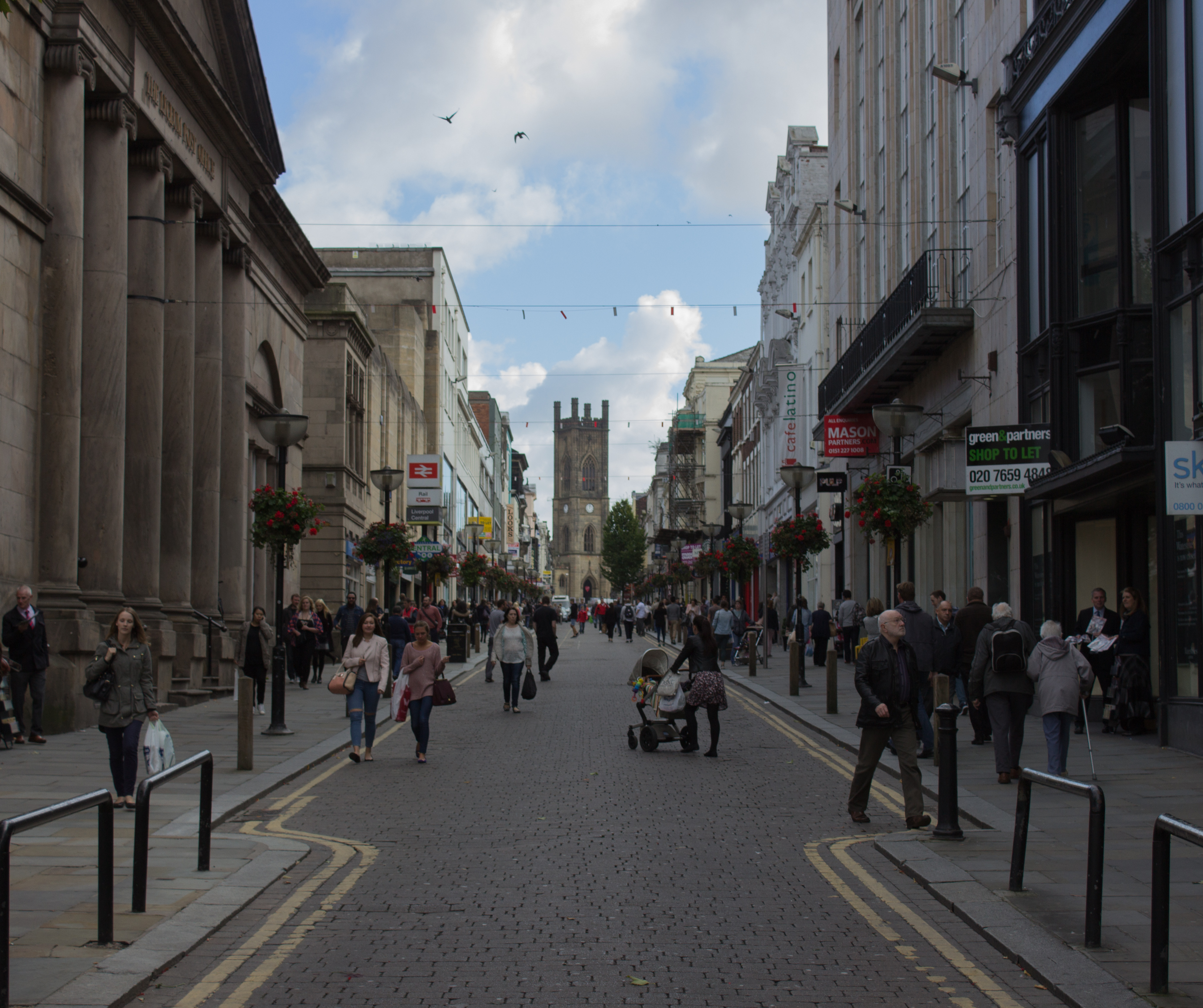 Bold Street in Liverpool, looking up to the Church of St Luke.